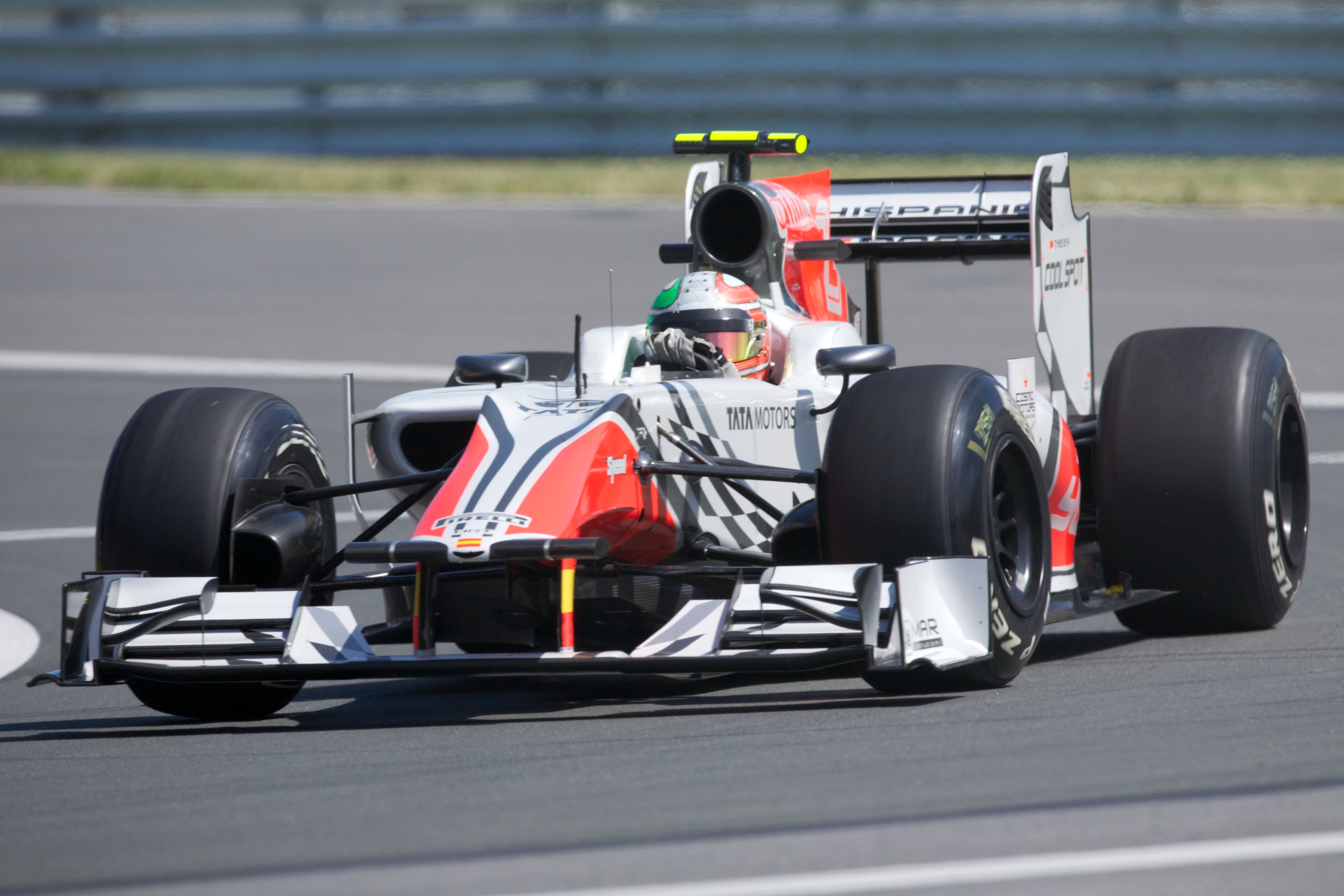 2011 Canadian Grand Prix